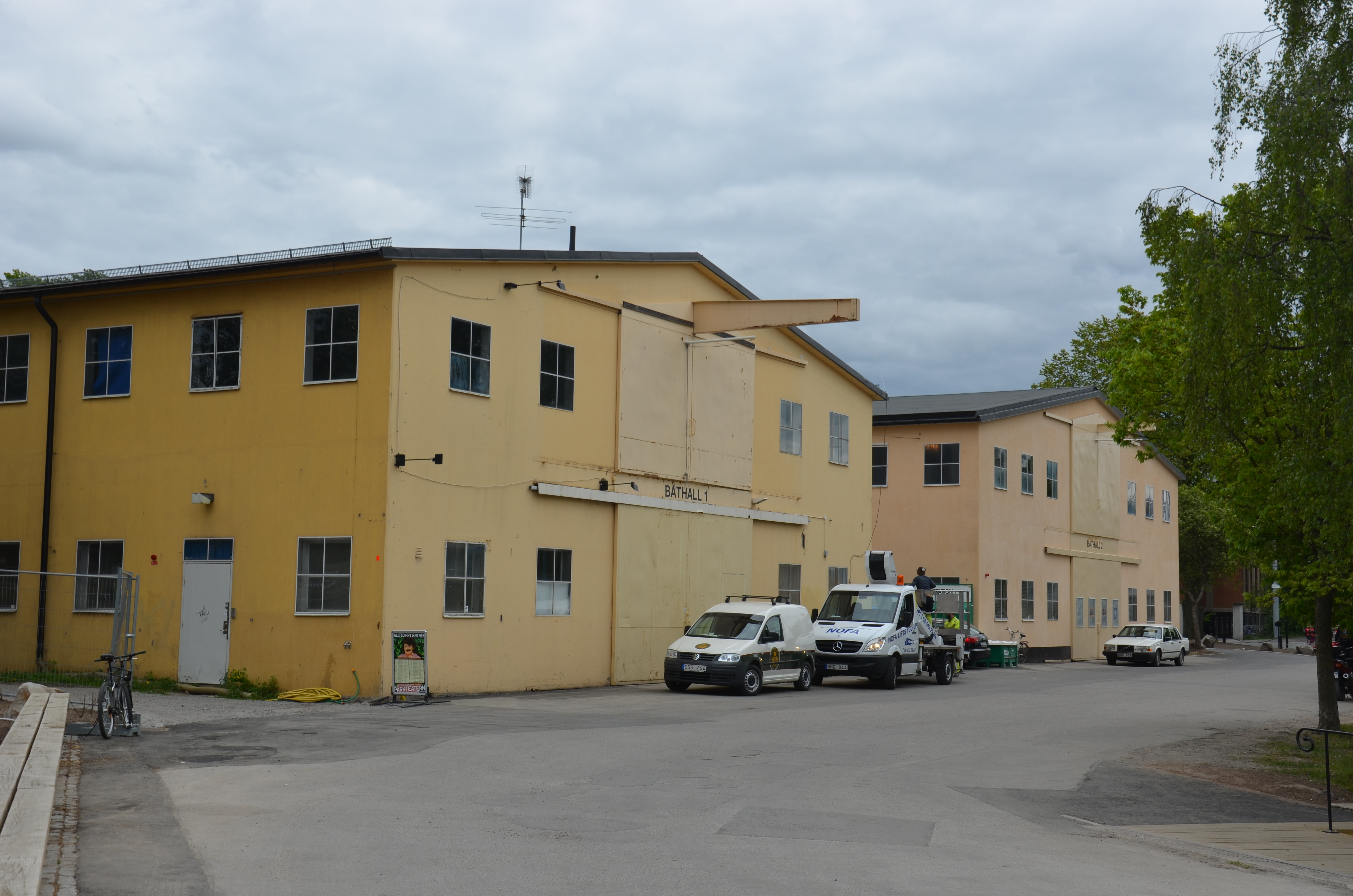 Båthallarna, Galärvarvet, Djurgården, Stockholm